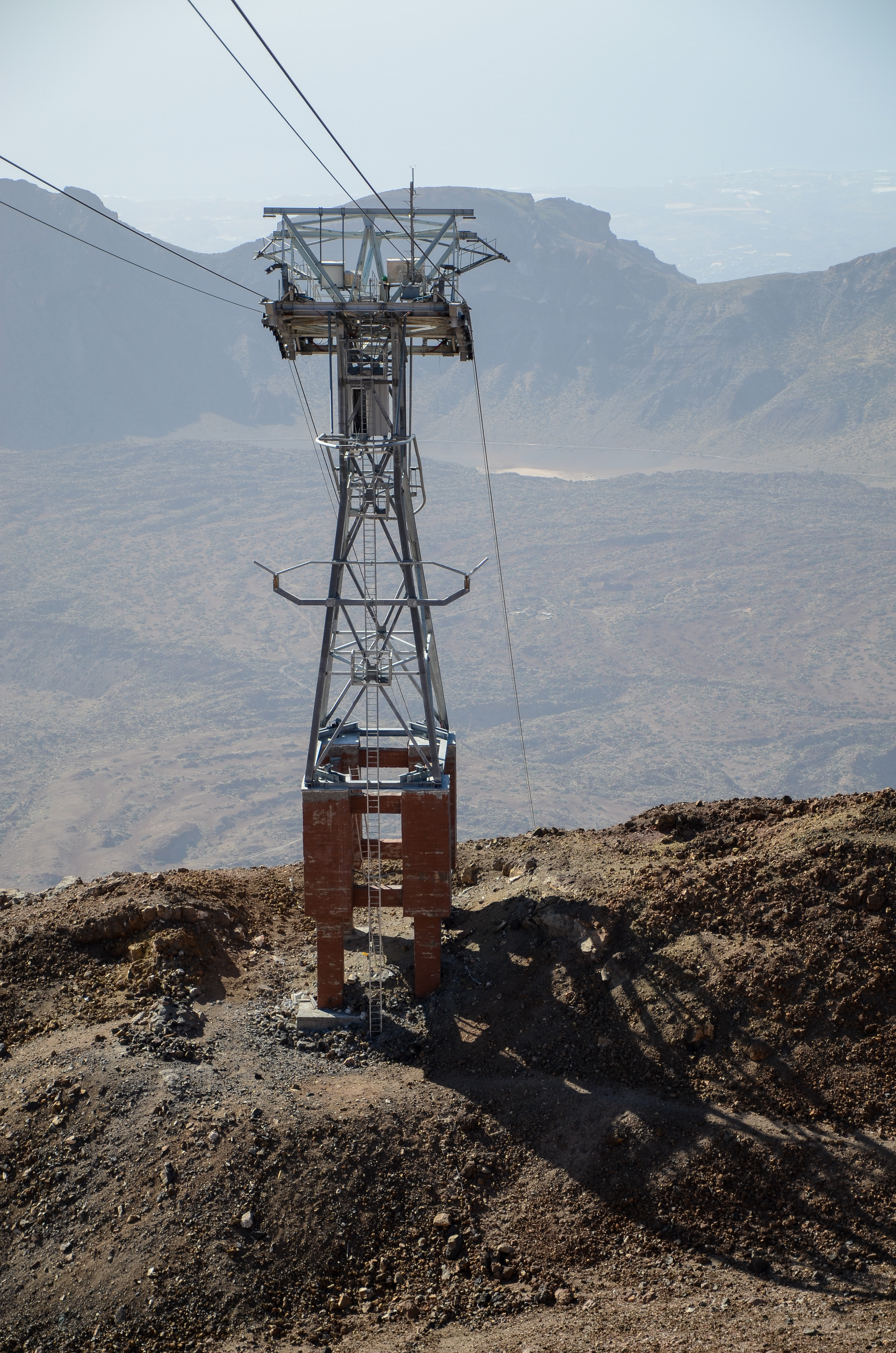 Teide cableway with gondola photographed from mountain station